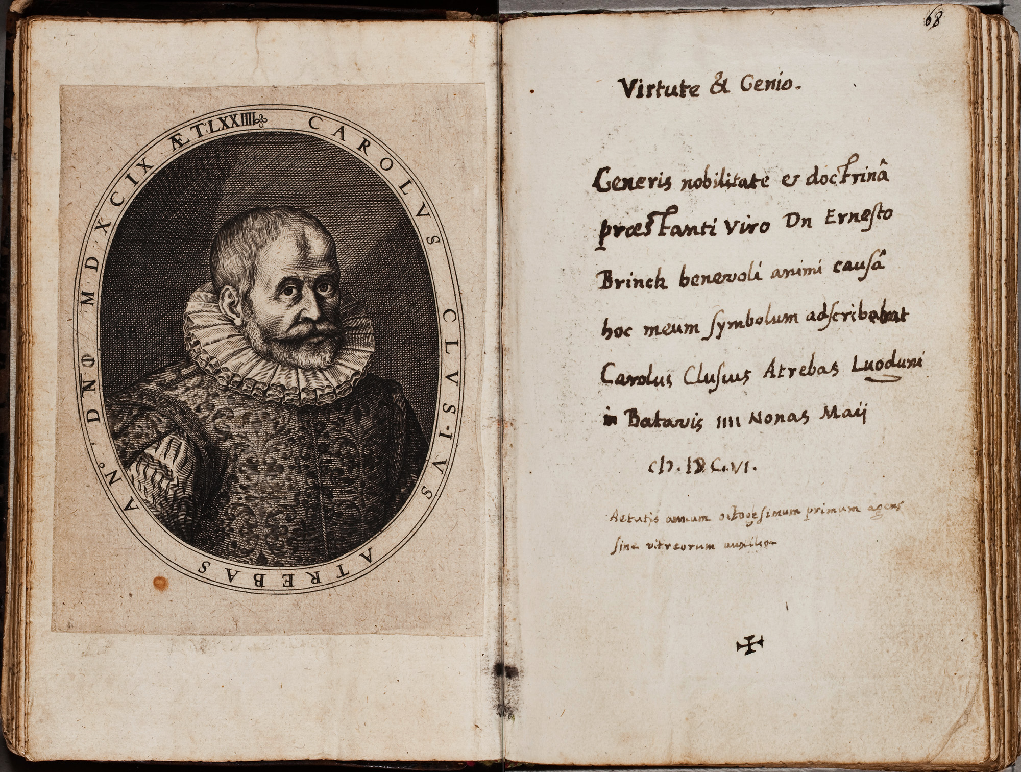 Album amicorum (I) van Ernst Brinck, f. 67v-68r: Carolus Clusius, Leiden, 4 mei 1606 Zie ook: Image uploaded on 02-10-2013 from the Flickr stream of the Royal Library, The Hague (Koninklijke Bibliotheek, KB, national library of the Netherlands)